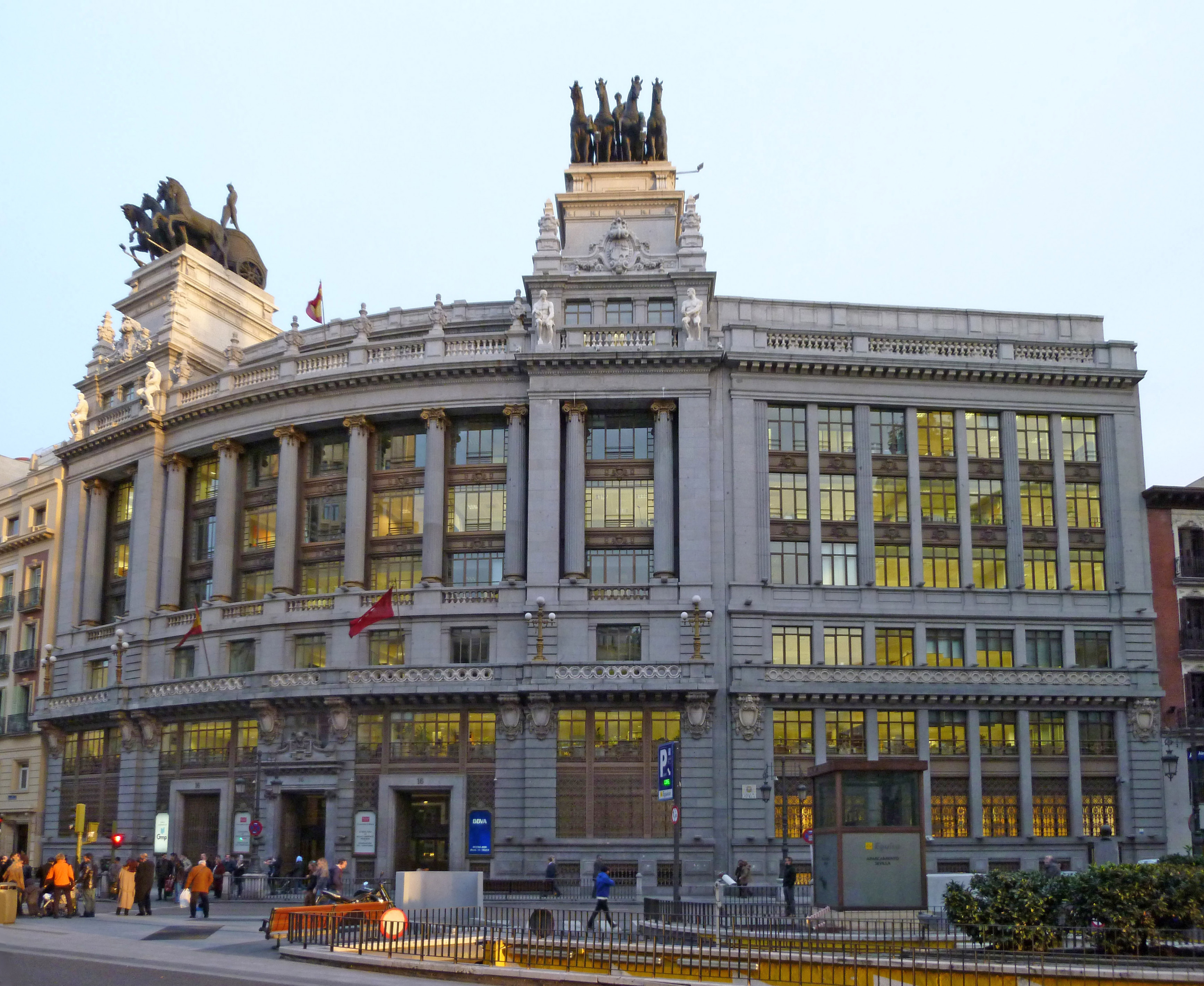 Façade of the Bank of Bilbao (1923) in Madrid (Spain).